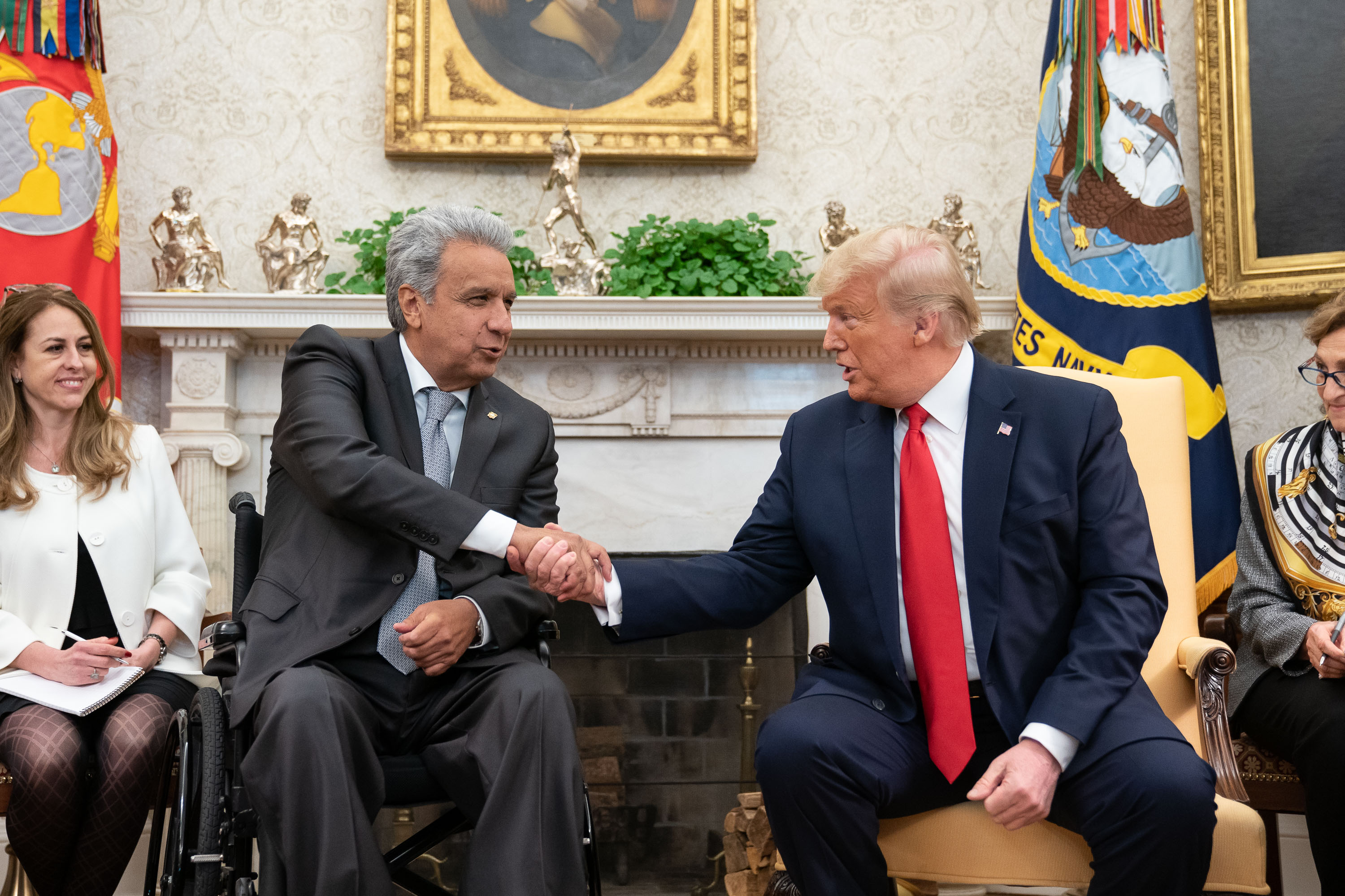 President Donald J. Trump meets with Ecuadorian President Lenin Moreno Garces Wednesday, Feb. 12, 2020, in the Oval Office of the White House. (Official White House Photo by Joyce N. Boghosian)